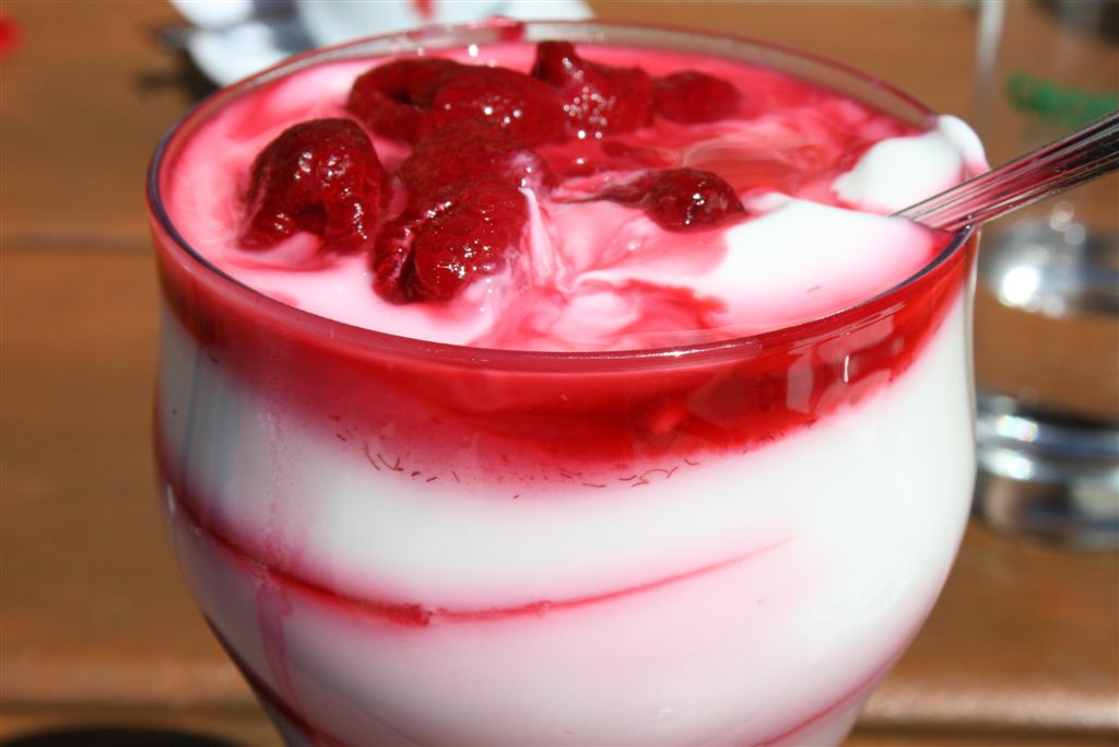 Yoghurt and raspberries